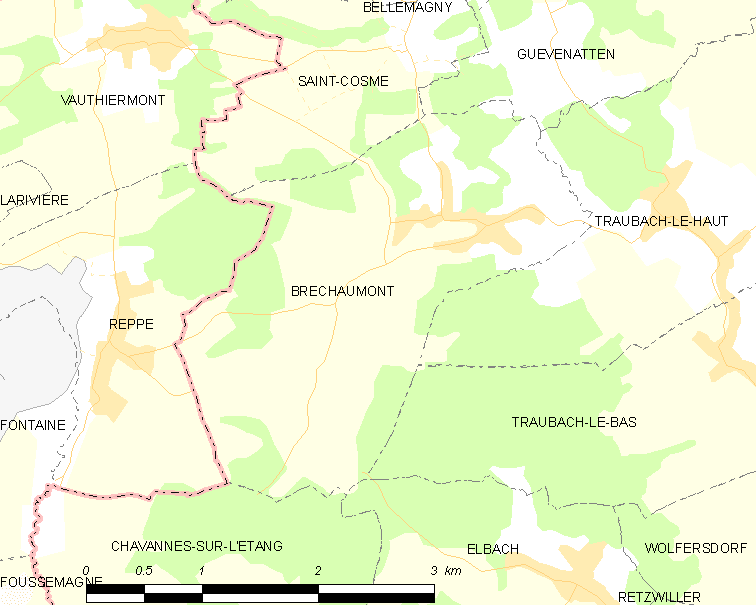 Map of French municipality